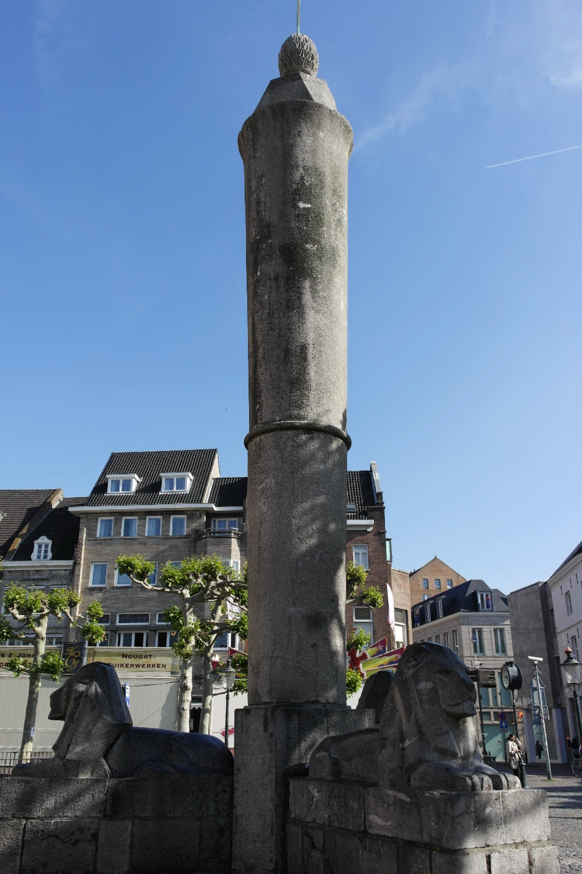 Maastricht, the Netherlands. View of the perron on the northeast corner of Vrijthof